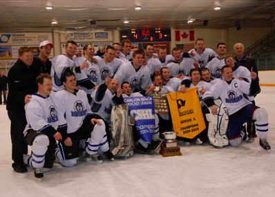 The Steinbach Senior Huskies in their double championship year. CSHL and Provincial Senior 'A' Championships.